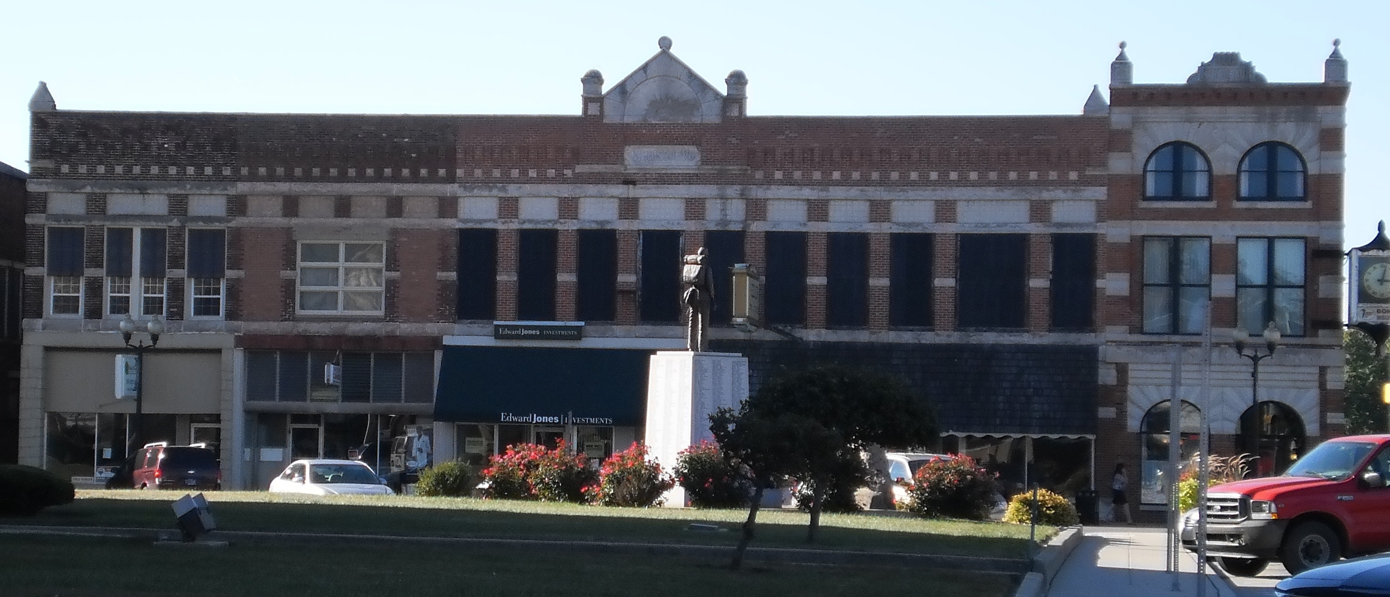 Briscoe (left) and Kirshbaum (right) buildings are part of the Hartford City Courthouse Square Historic District located in Hartford City, Indiana. Both buildings were built in the 1890s during the Indiana Gas Boom.